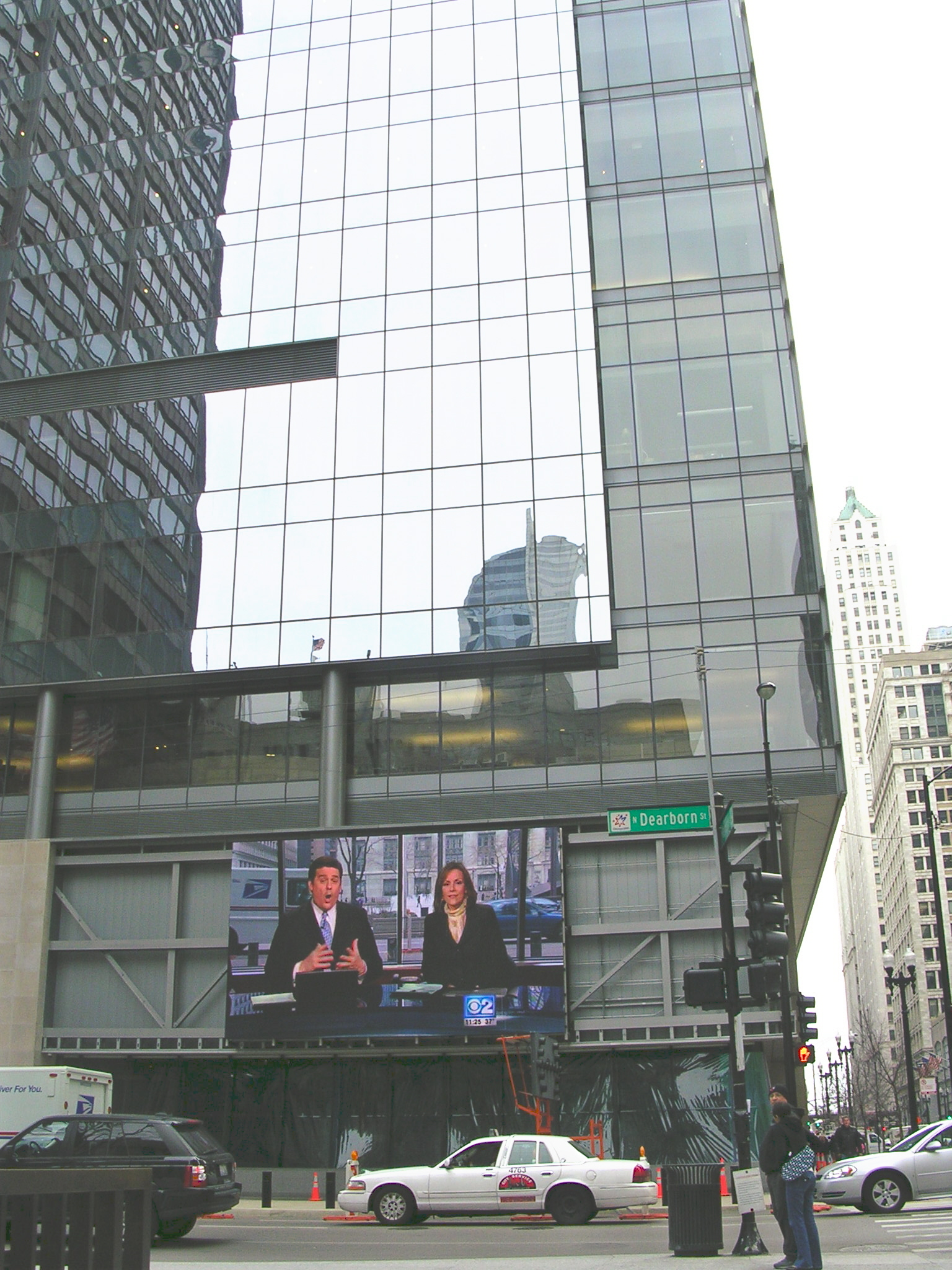 Photo of the WBBM-TV studios at the corner of Dearborn Street and Washington Boulevard in downtown Chicago, Illinois. The camera view is looking East, but the video screen looks West towards Daley Plaza.